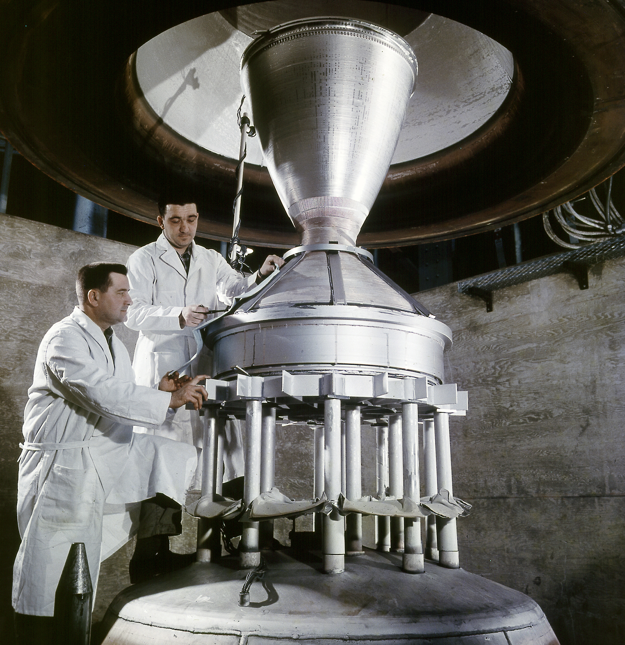 Technicians in a vacuum furnace at Lewis’ Fabrication Shop prepare a Kiwi B-1 nozzle for testing in the B-1 test stand (5/8/1964).